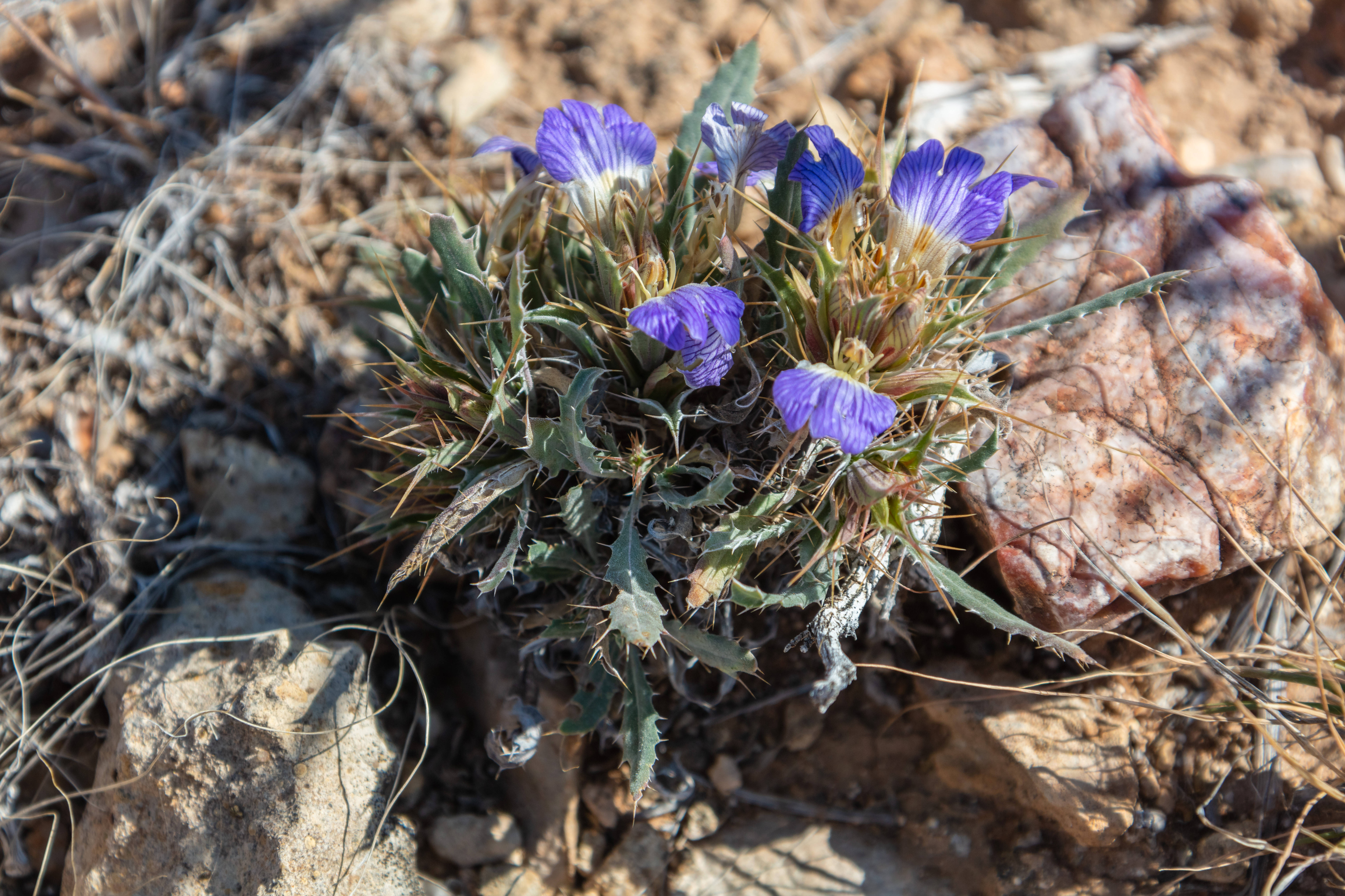 Blepharis gigantea, Namib-Naukluft National Park, Namibia